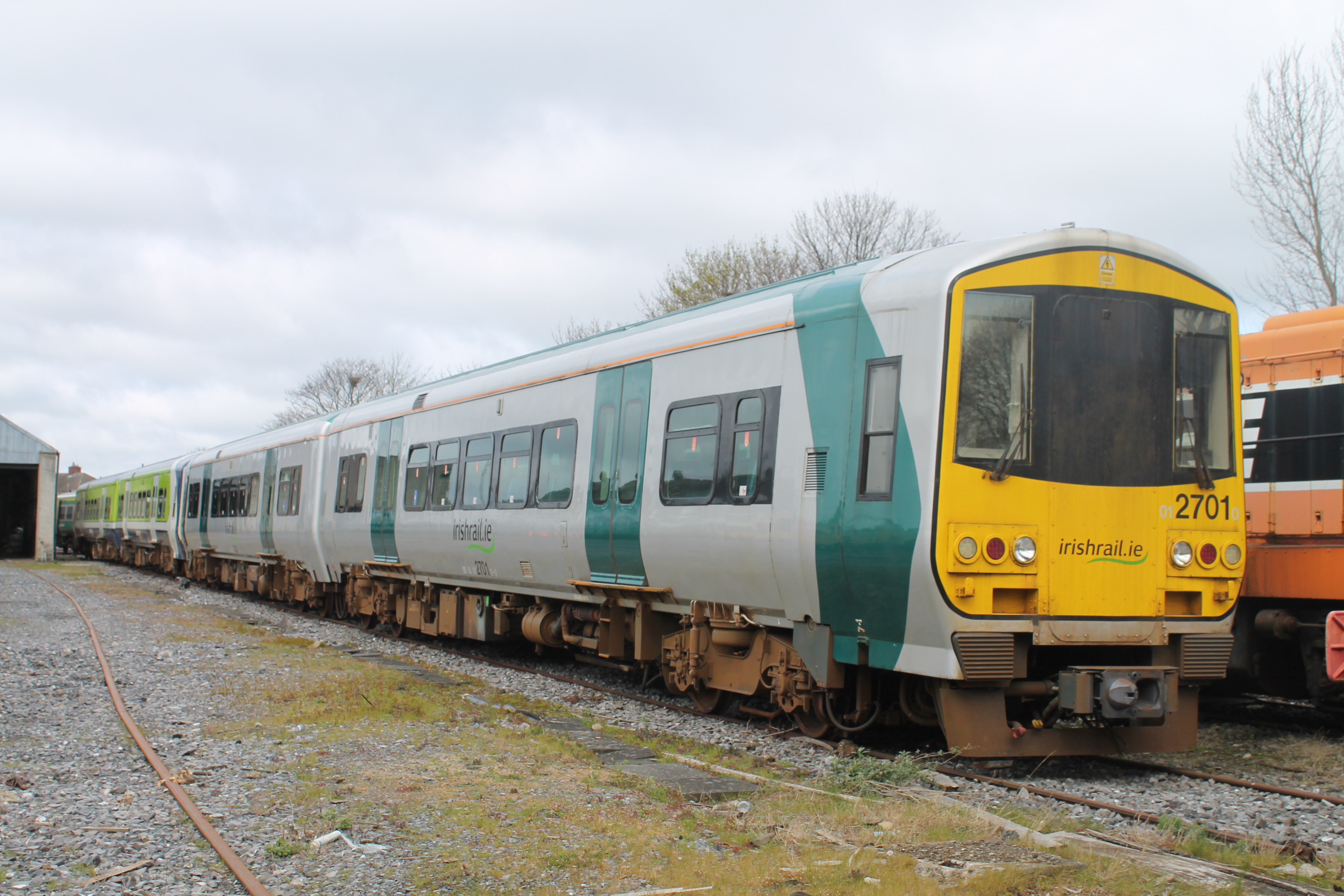 Stored 2700 class DMU's at Inchicore. 07/04/2016